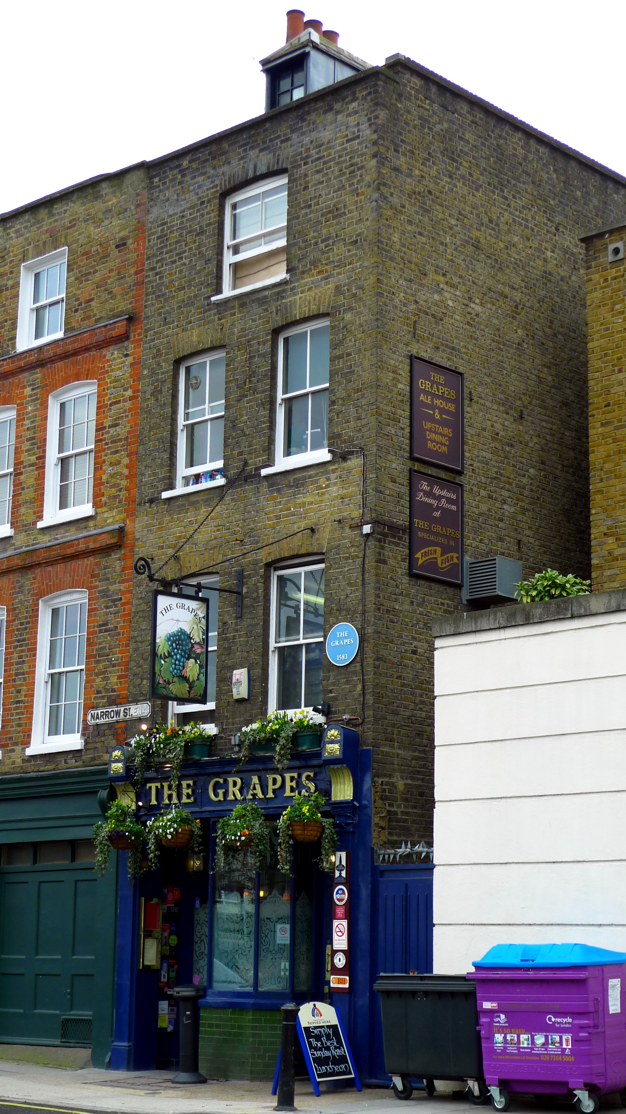 A well-regarded riverside pub, specialising in fish dishes. Address: 76 Narrow Street (formerly Fore Street). Former Name(s): The Bunch of Grapes. Owner: Punch Taverns [Spirit Group]; Taylor Walker (former). Links: Randomness Guide to London Fancyapint Beer in the Evening Qype Dead Pubs (history)